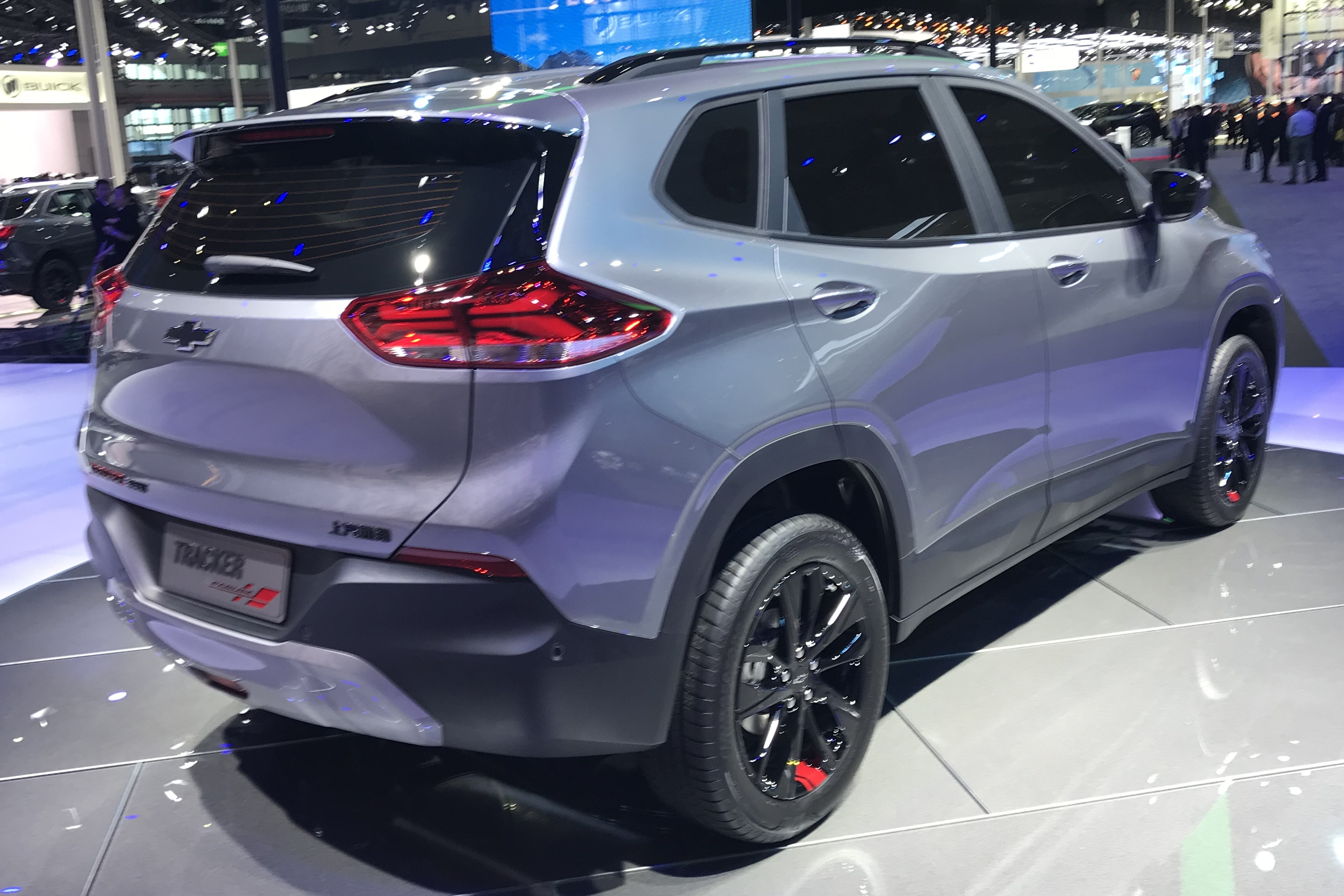 2019 Chevrolet Tracker rear